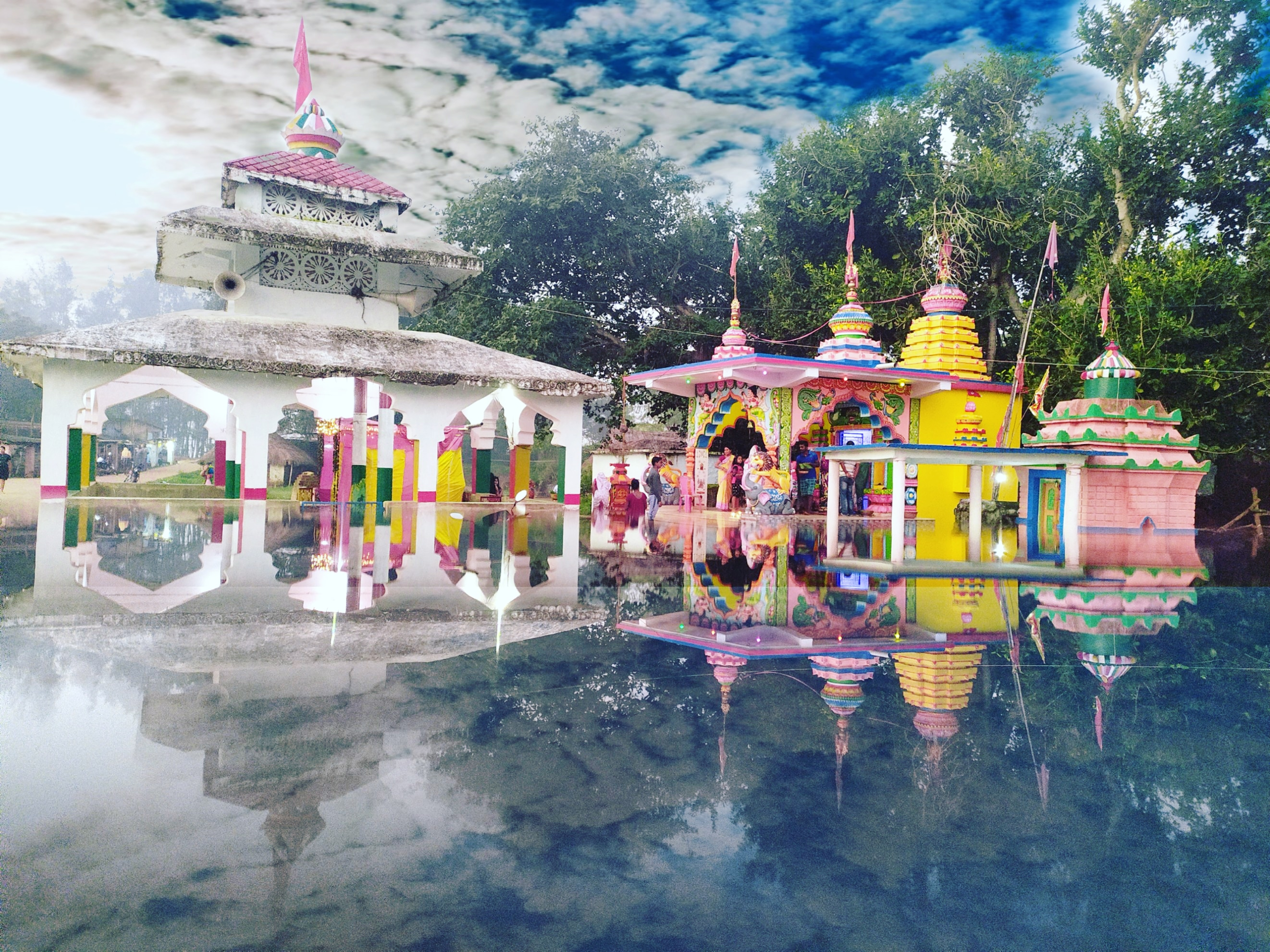 It is a famous temple is situated in Sunadhar Village of Odisha, dedicated to Lord Vishnu.